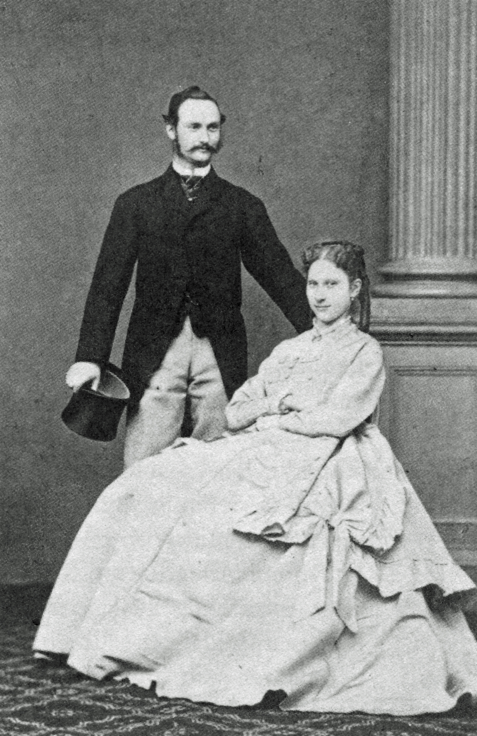 Crown prince Frederick, later Frederick VIII, of Denmark and his princess Louise of Sweden.